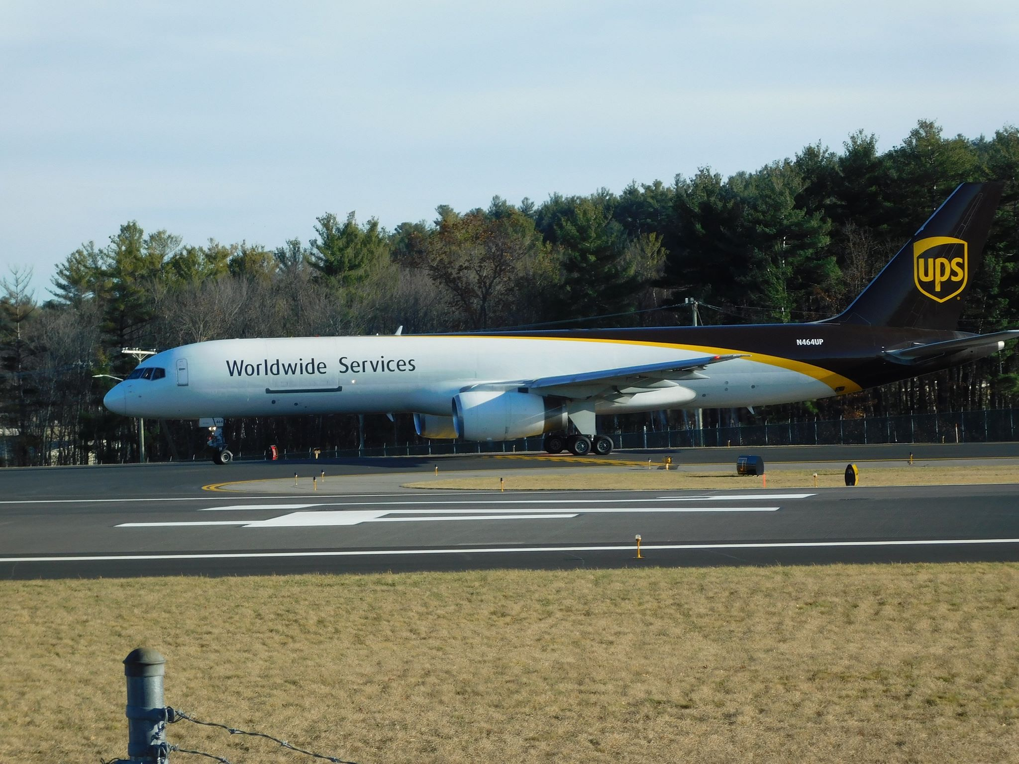 A UPS 757-200F about to depart to Louisville after landing from Boston as a reposition flight.